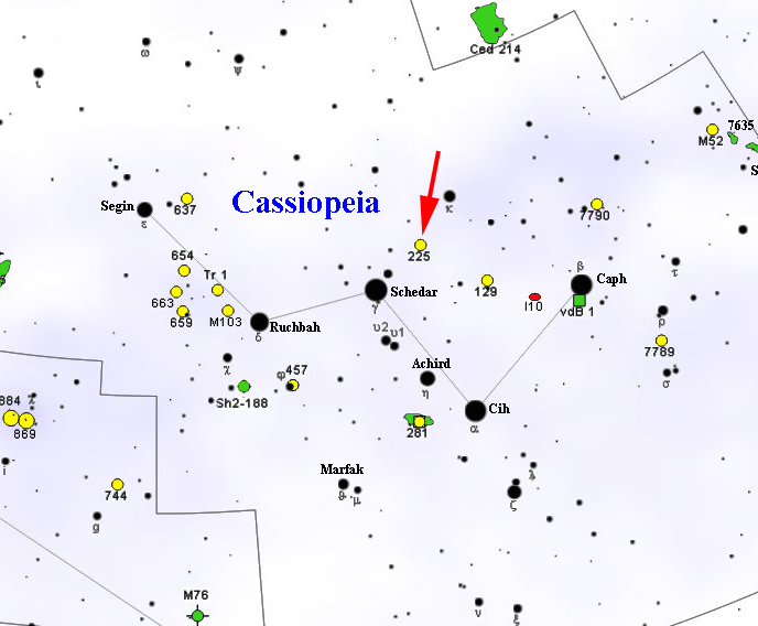 Map of NGC 225